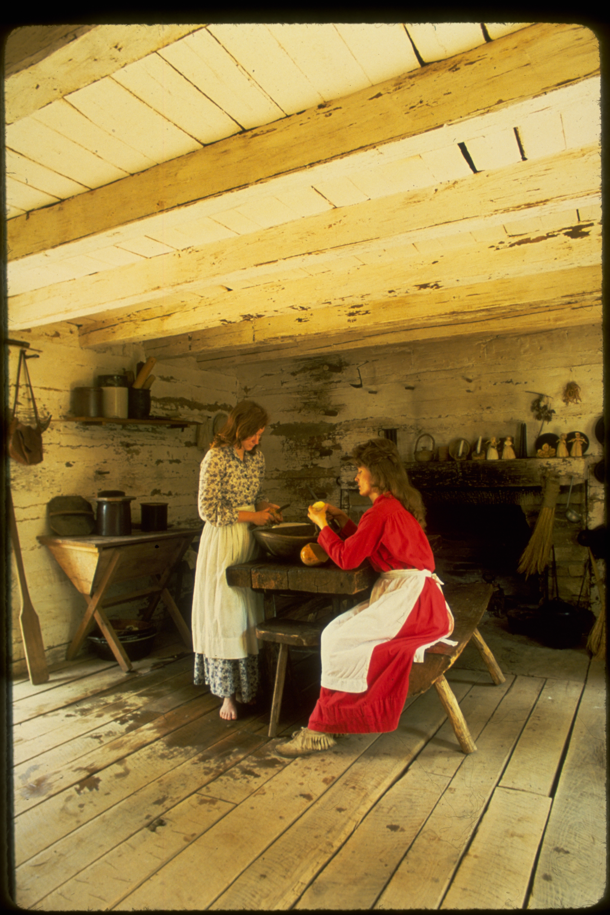 Abraham Lincoln lived on this southern Indiana farm from 1816 to 1830. During that time, he grew from a 7-year-old bot to a 21-year-old man. His mother, Nancy Hanks Lincoln, is buried here.